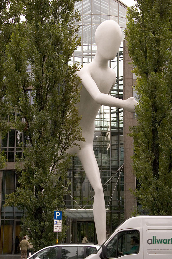 Sculpture Walking Man by Jonathan Borofsky in Munich/Germany